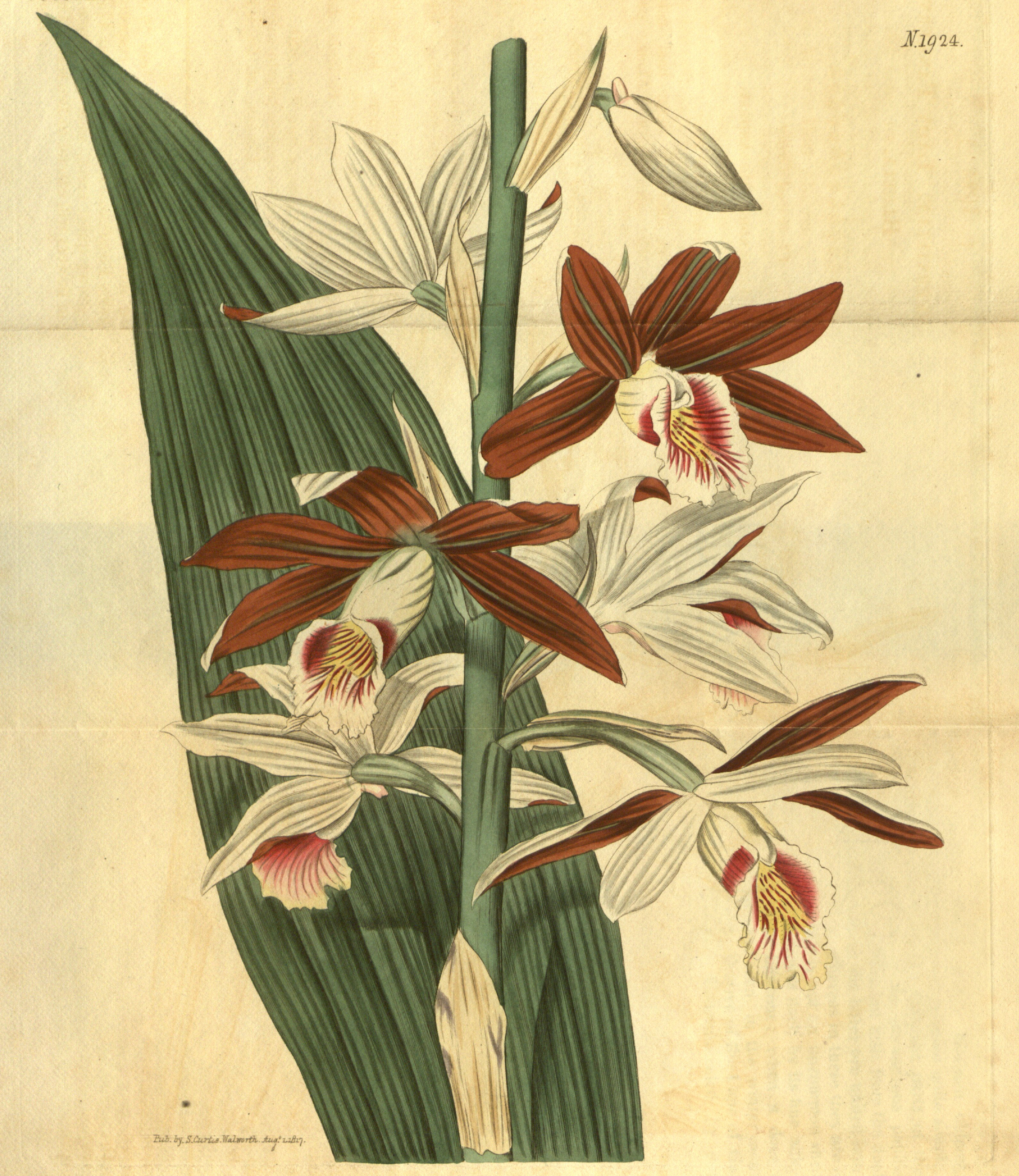 Illustration of Phaius tankervilleae (as syn. Bletia tankervilleae")